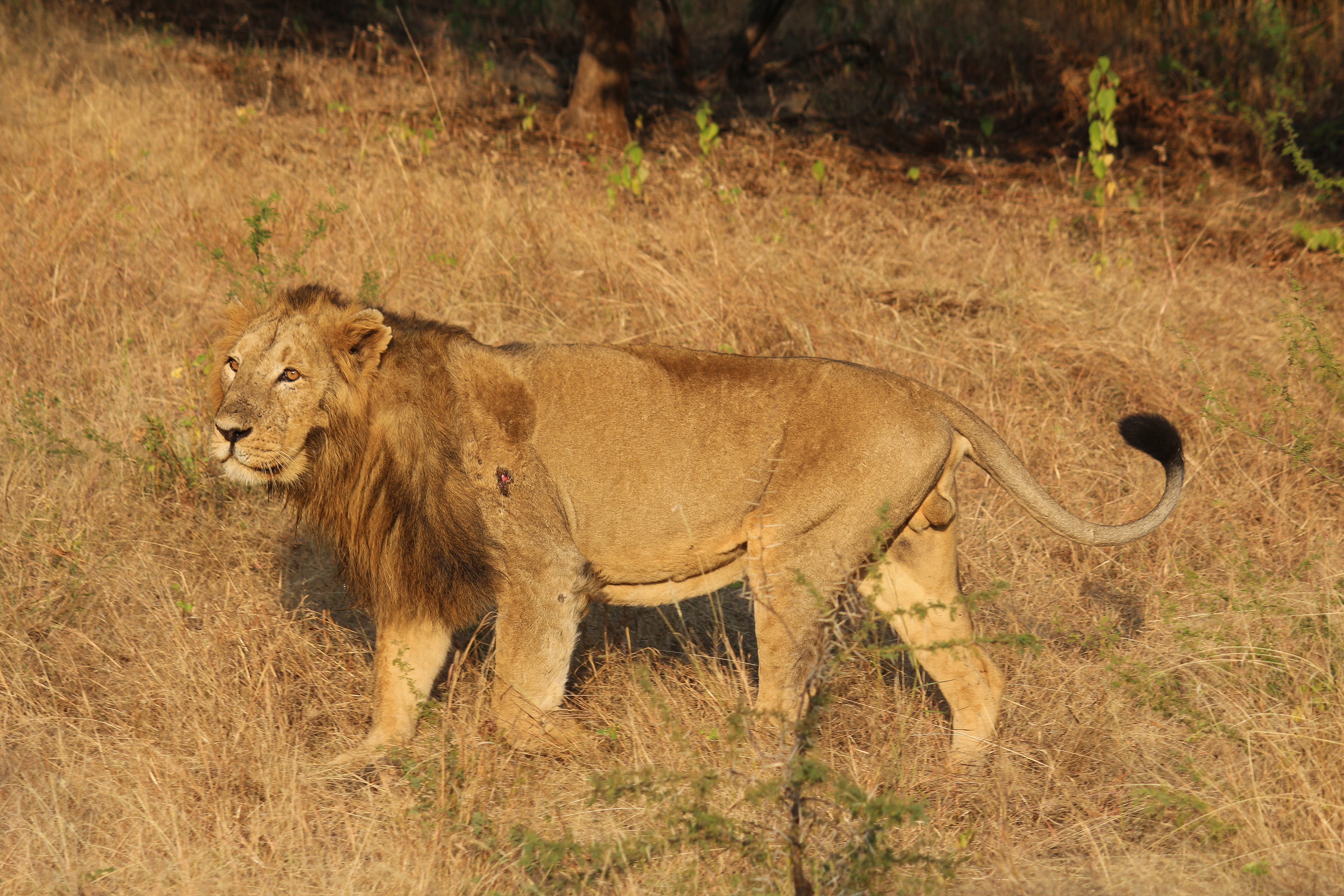 Young male Asiatic lion (Panthera leo persica) in Gir Forest National Park, India